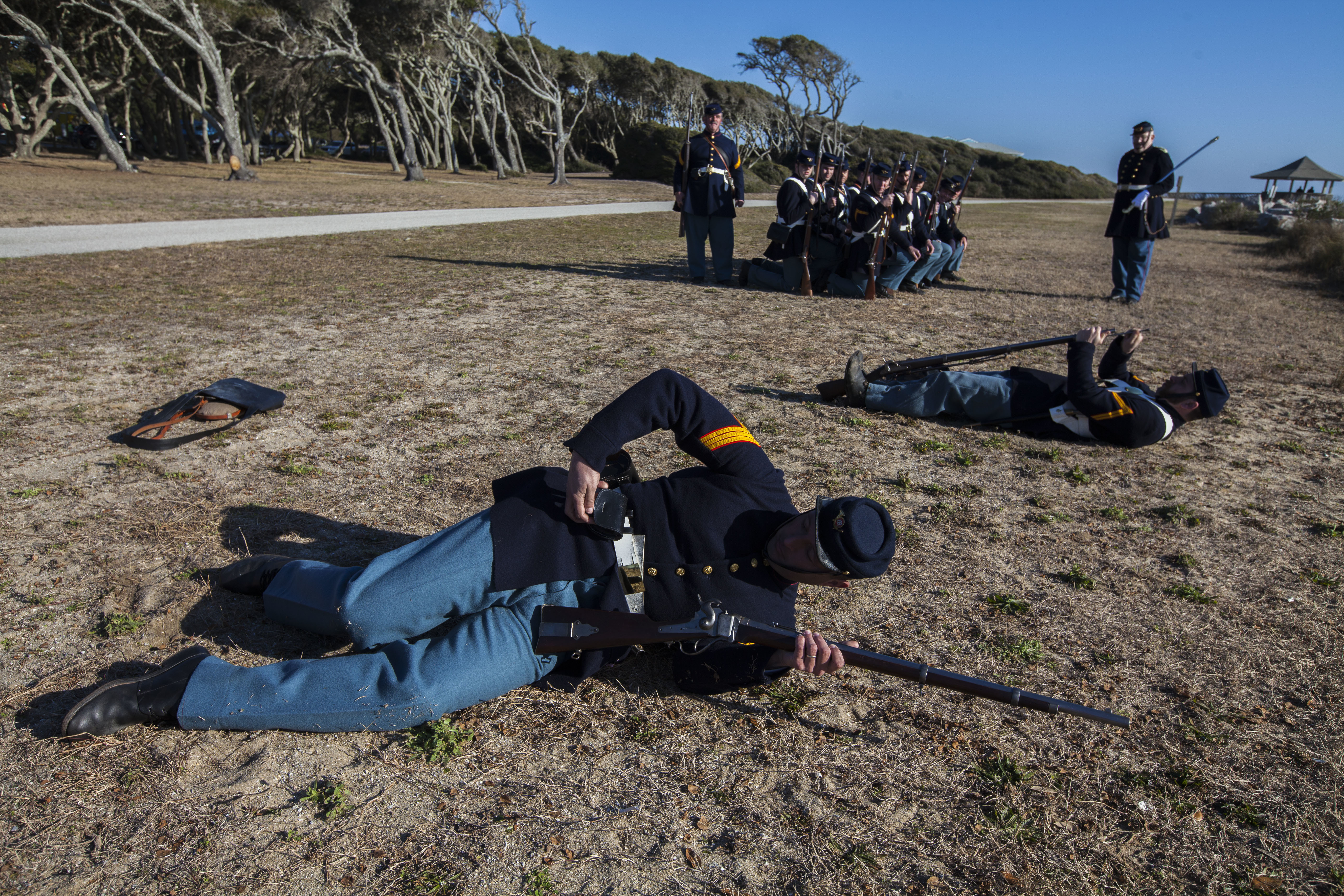 Members of the Marine Corps Historical Company and Single Marine Program Marines demonstrate how Civil War Marines would reload their Springfield Model 1861 Percussion Rifle Muskets in the prone position during the 150th Anniversary of the Battle of Fort Fisher commemoration at Kure Beach, N.C., Jan. 17, 2015. The Marine Corps Historical Interpretive Team used battle walks, historical weapons demonstrations, and extensive exhibits to tell the story of Civil War Marines, showing the relevance and impact of the battle and its participants on today's Corps. (U.S. Marine Corps photo by Sgt. Christopher Q. Stone, MCI-East Combat Camera/Released) Unit: Marine Corps Installations East Combat Camera (MCB CAMP LEJEUNE & MCAS NEW RIVER) DVIDS Tags: Civil War; History; Weaponry; USMC Combat Camera; Marine Corps Heritage Foundation